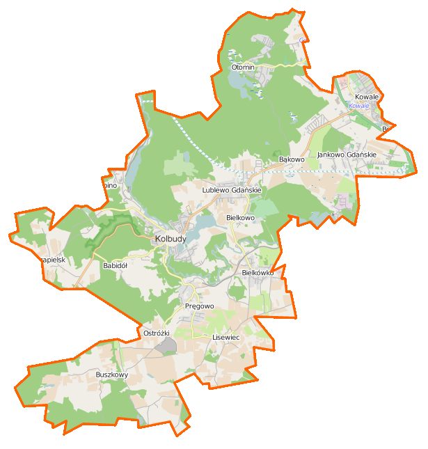 Map of Gmina Kolbudy, Poland This map of Kolbudy(gmina) was created from OpenStreetMap project data, collected by the community. This map may be incomplete, and may contain errors. Don't rely solely on it for navigation.